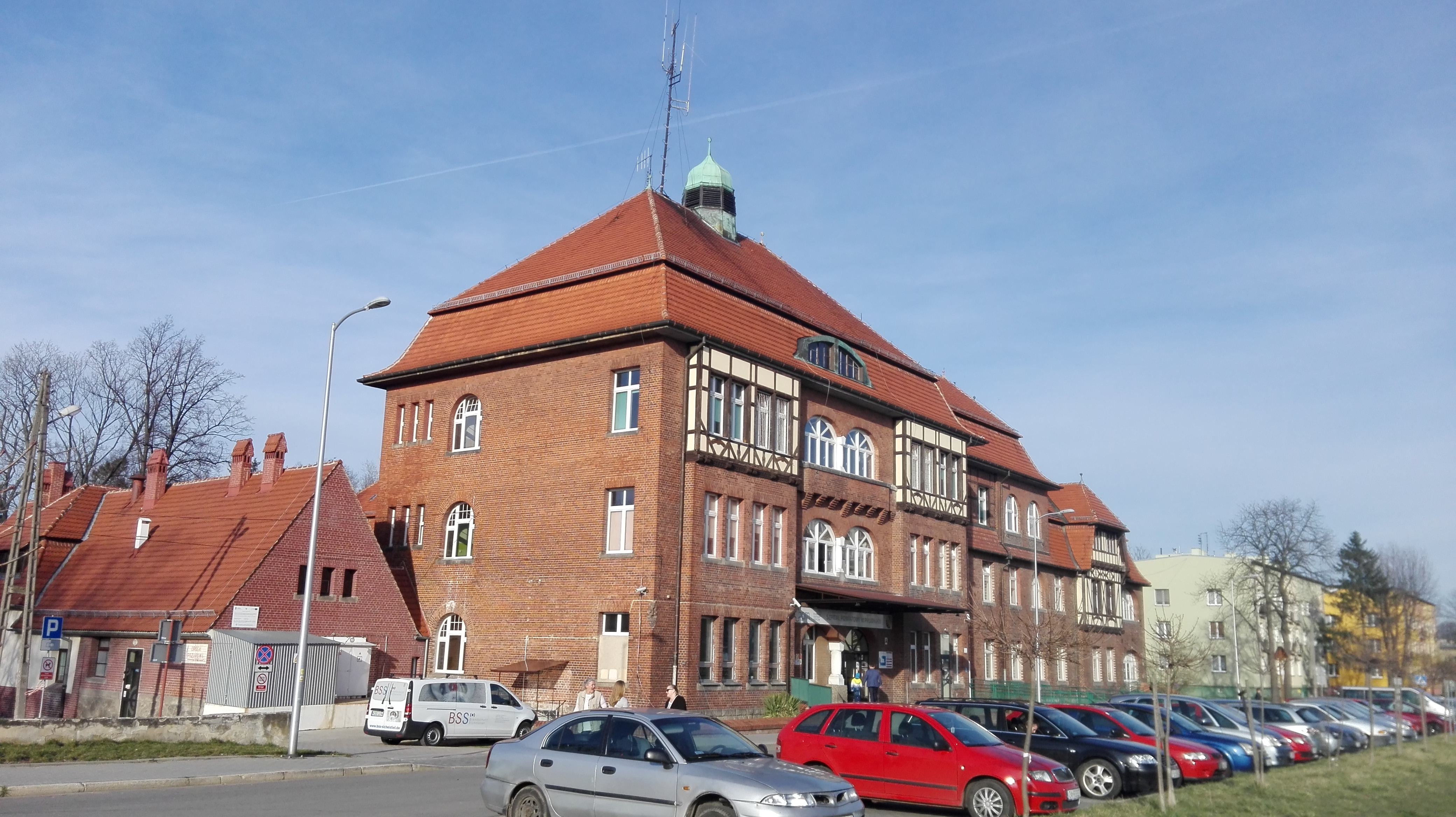 Hospital in Prudnik